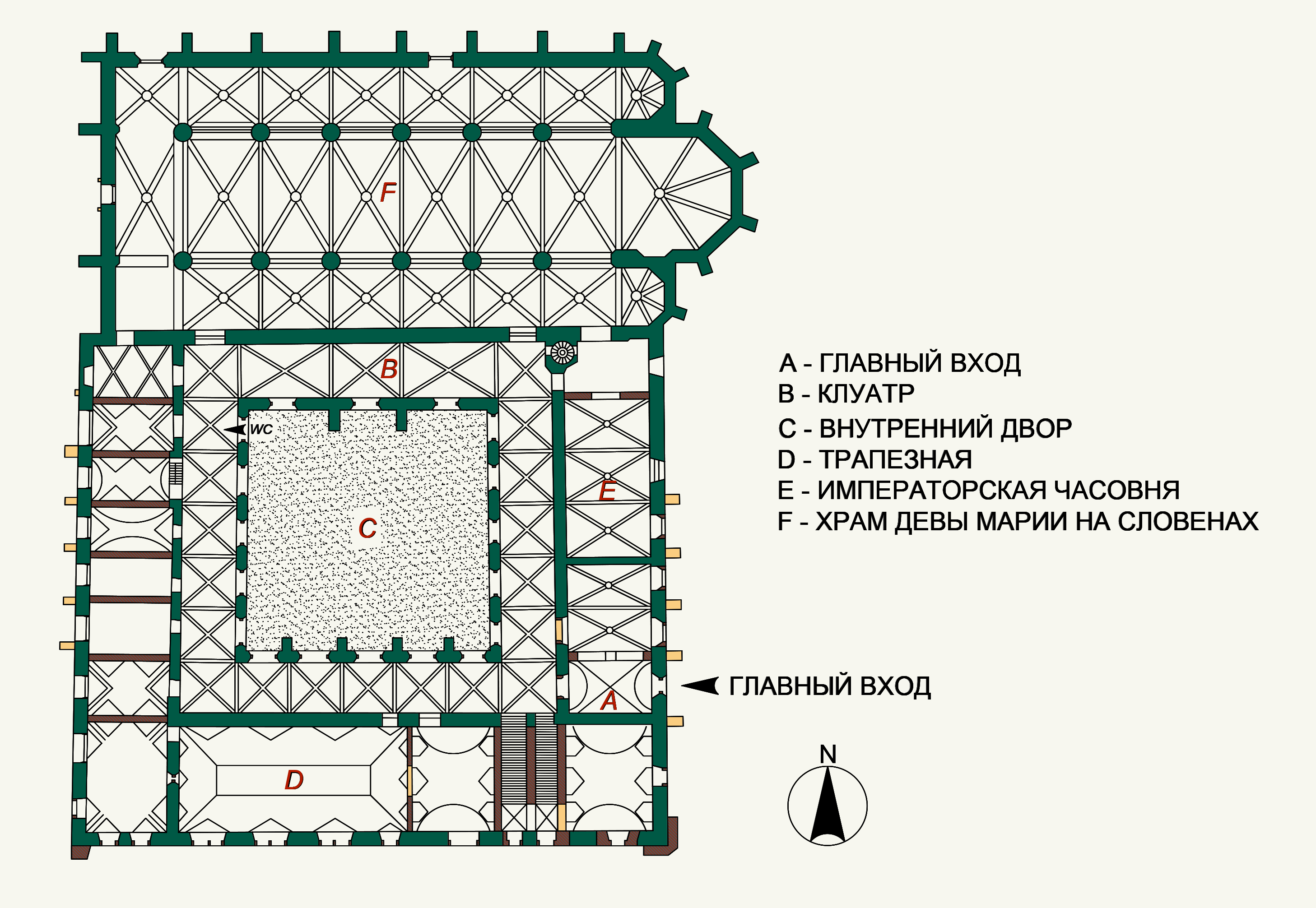 Emmaus Monastery